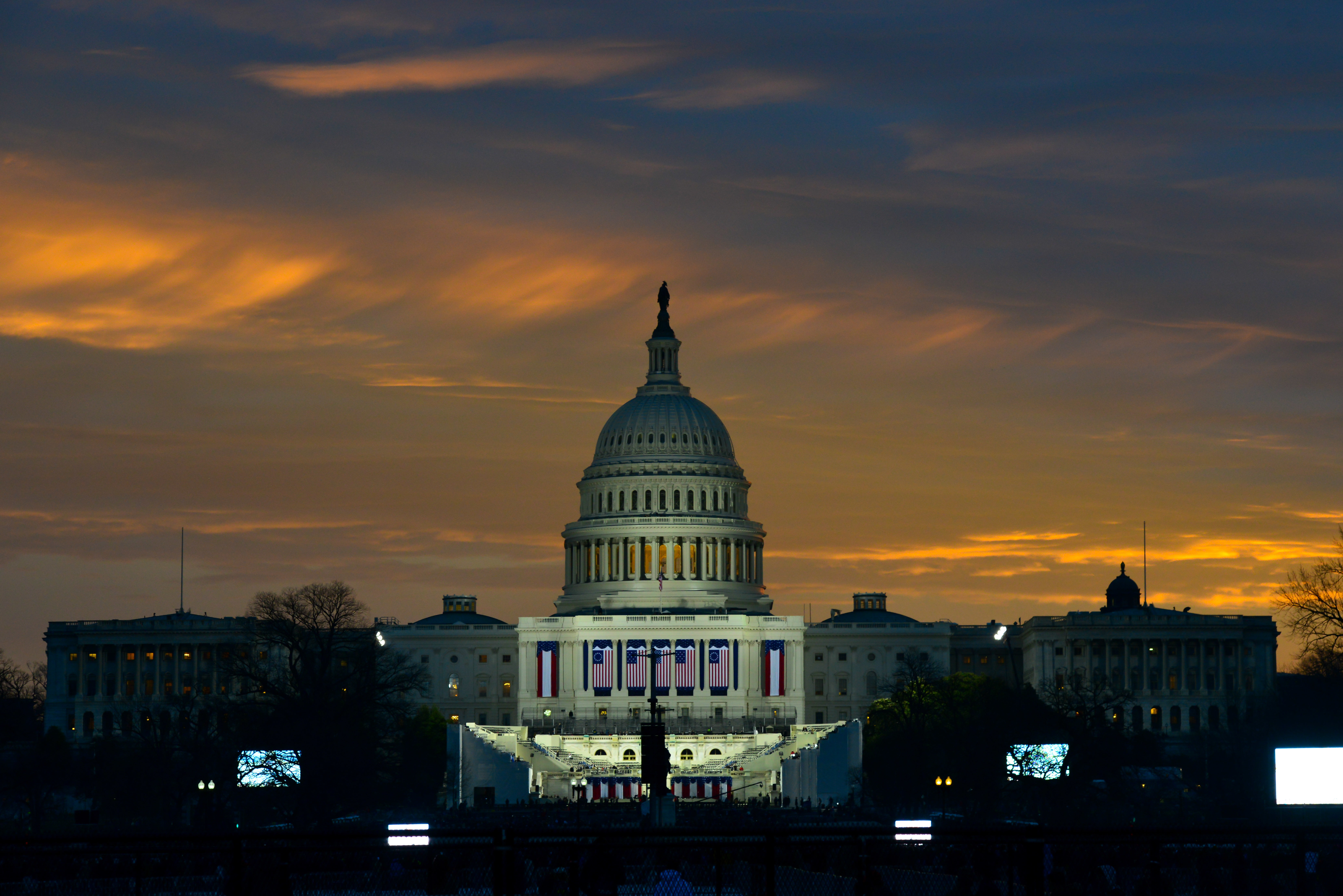 Sunrise over the Capitol as the National Guard and supported agencies prepare for the 58th Presidential Inauguration, in Washington D.C., Jan. 20, 2017. (National Guard photo by Tech. Jonathan Young, JTF-DC)